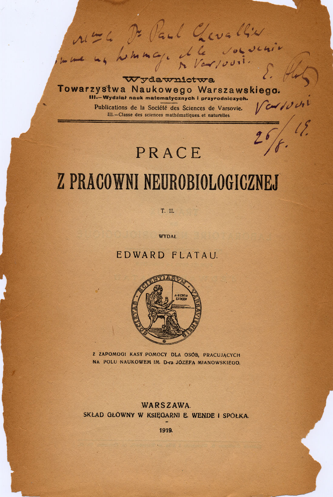 First page of publications from Nueurobiological laboratory based in Warsaw, part of Towarzystwo Naukowe Warszawskie. Edited by Edward Flatau.